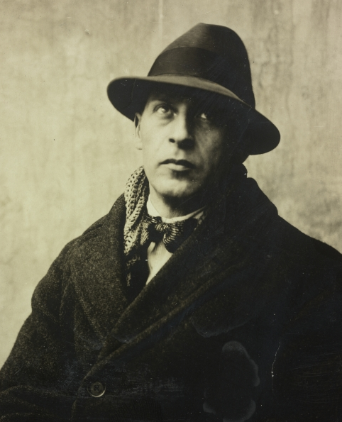 Dagobert Peche (1887–1923), Austrian artist, known for his work for the Wiener Werkstätte.